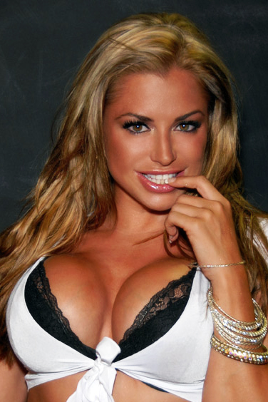 Louise Glover attending the Benchwarmer "Back-to-School" Party combined with Benchwarmer Founder Brian Wallos Birthday Party at Empire, Hollywood, CA on Aug. 28, 2009 - Photo by Glenn Francis of